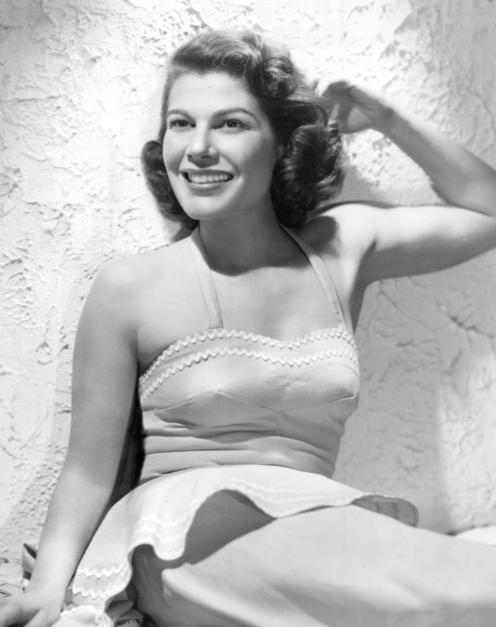 Photo of actress Betty Lou Gerson from the radio program The Guiding Light.